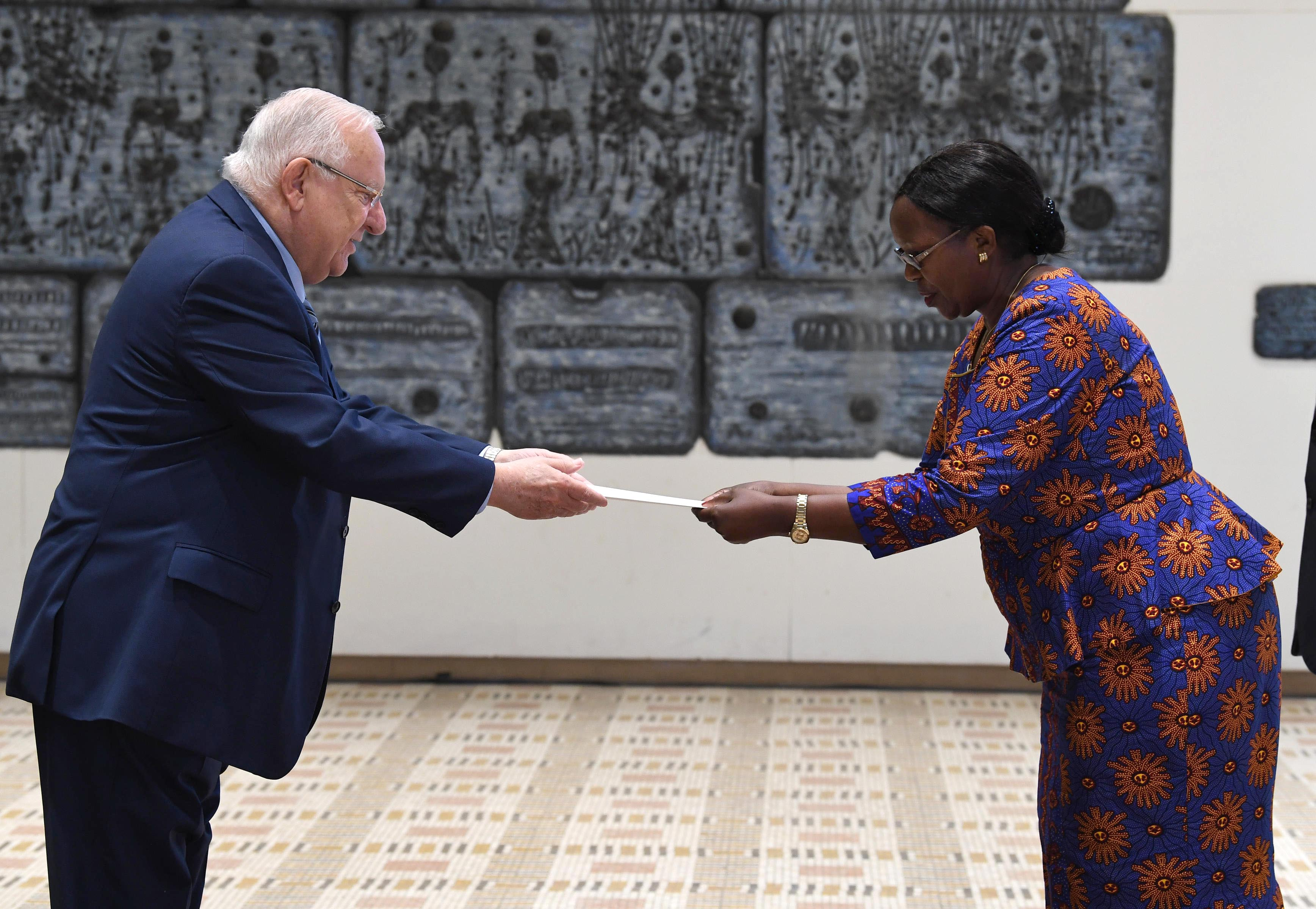 President of Israel, Reuven Rivlin, receives the credentials of new Ambassadors from Ghana, South Korea, Argentina, the Dominican Republic and Malawi upon their entry as ambassadors of their respective countries in Israel. Monday, March 12, 2018. Photo Credit: Mark Neyman / GPO Depicted people: Reuven Rivlin and Agrina Mussa